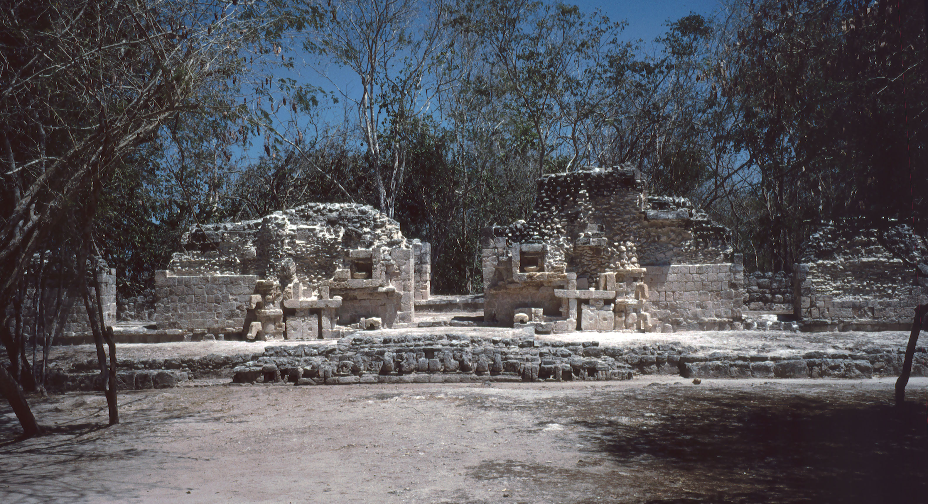 Hochob, Campeche, Mexico: structure III.